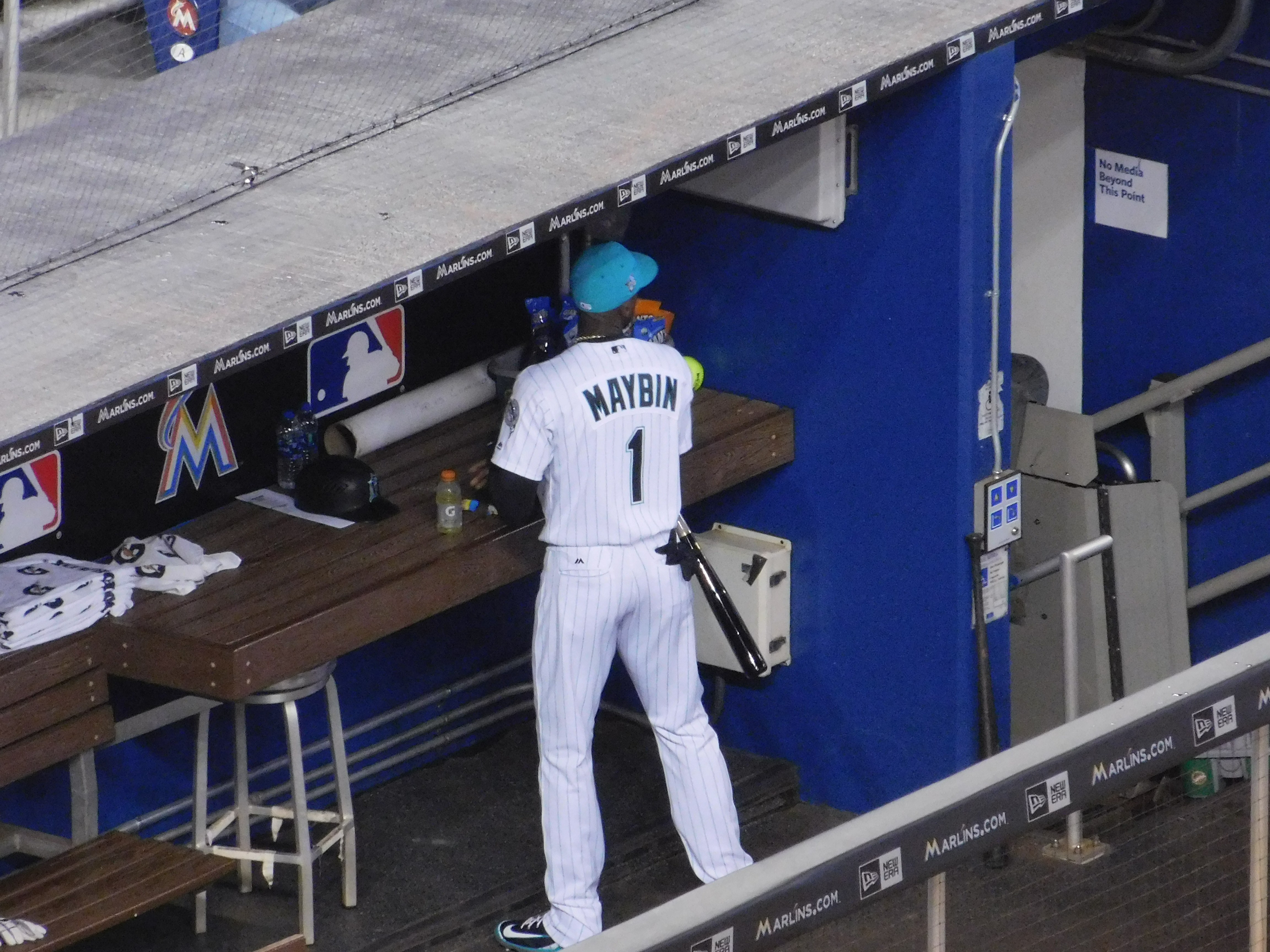 Cameron Maybin playing for the Miami Marlins in June 2018.